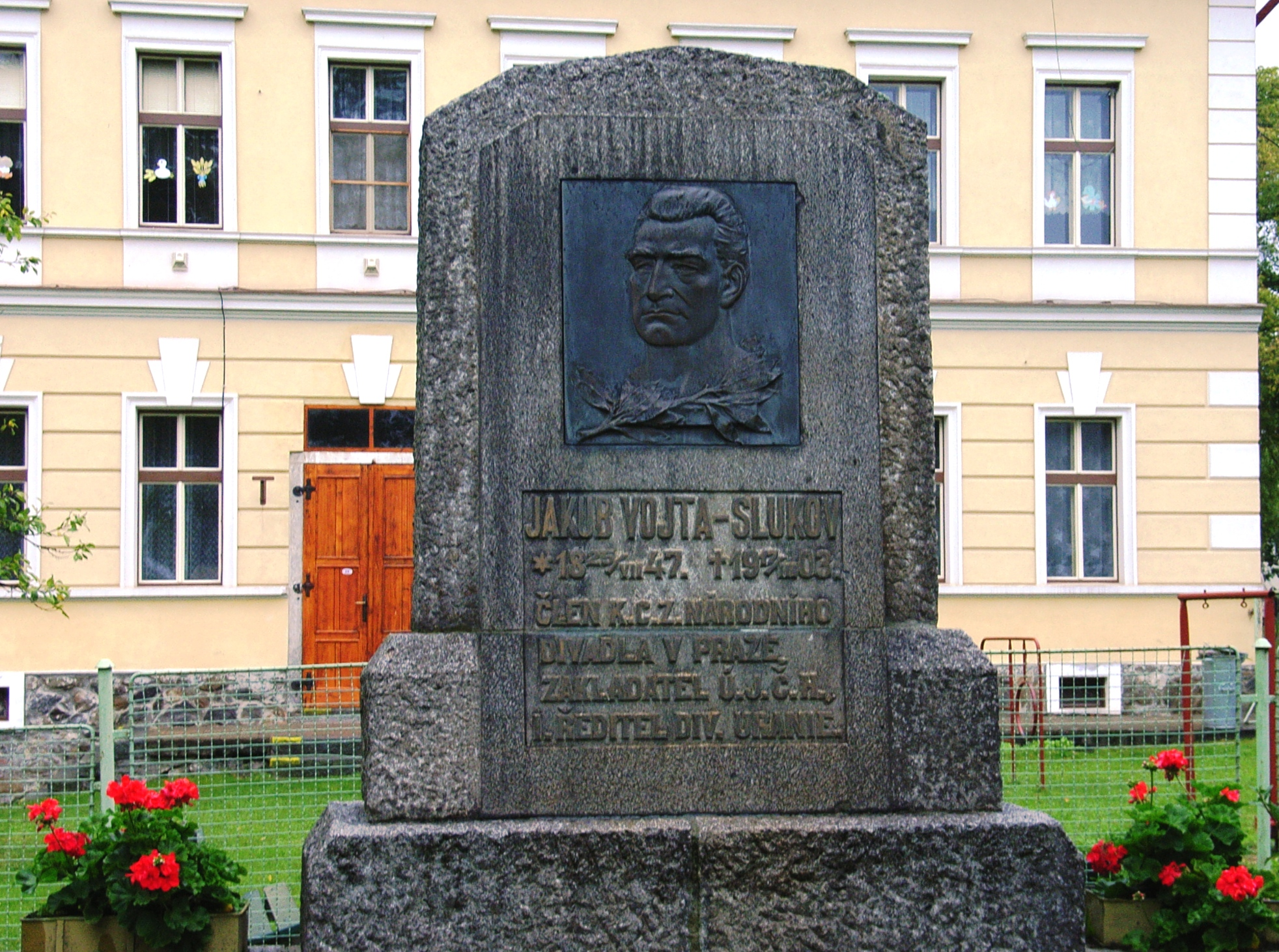 Monument of Vojta Slukov in his birth village of Zlukov near Veselí nad Lužnicí.